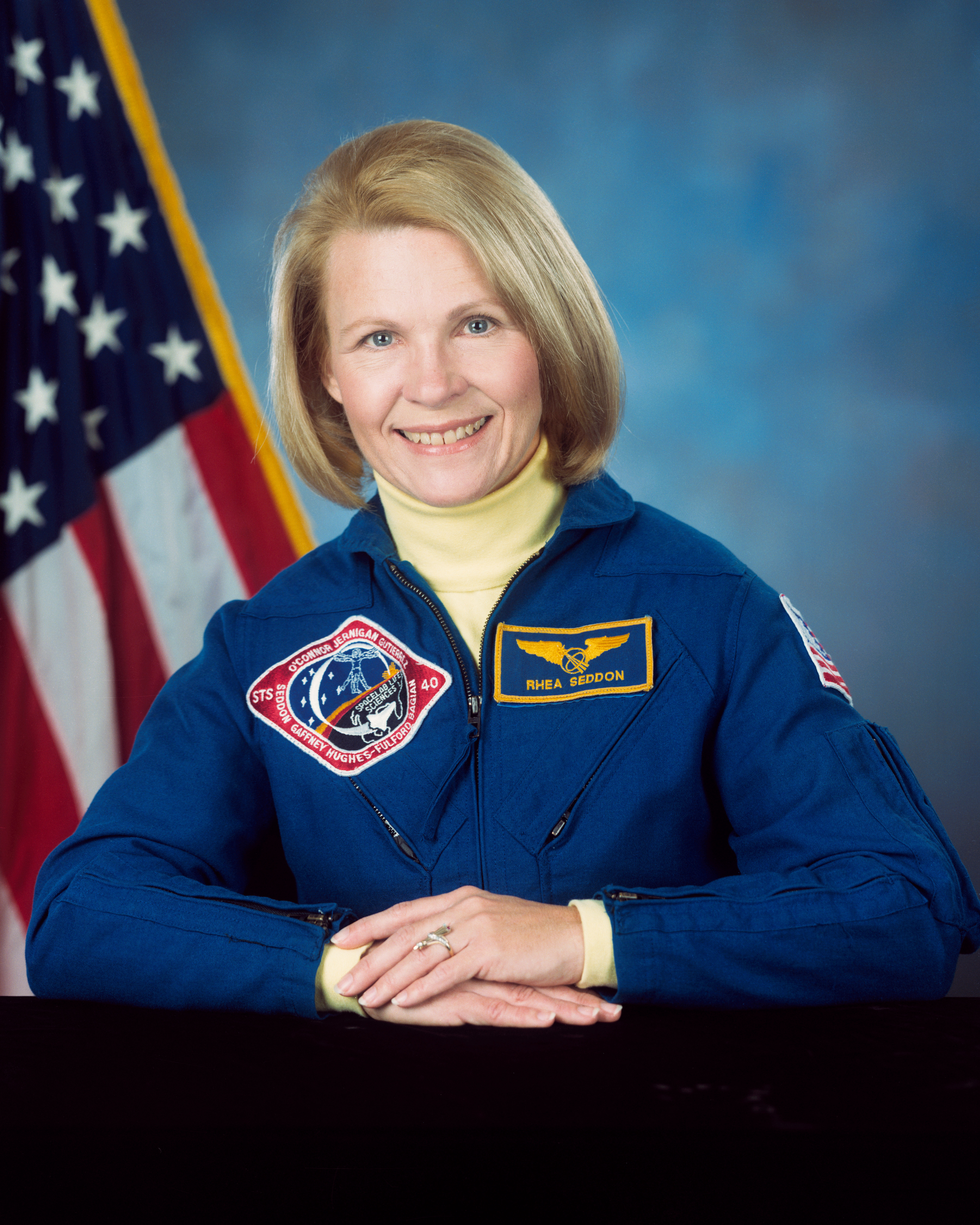 NASA publicity photo of Astronaut Margaret Rhea Seddon.